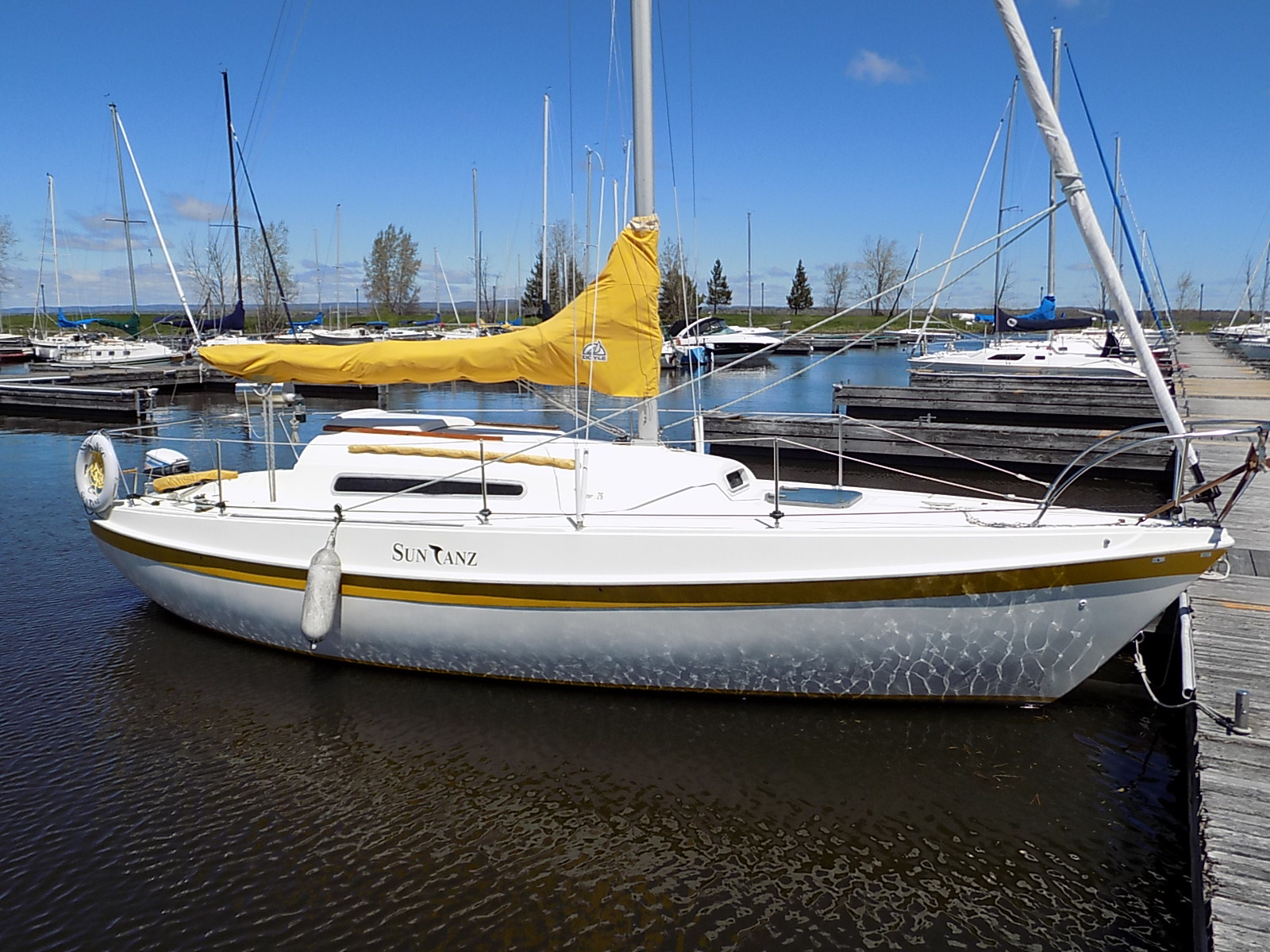 A Tanzer 26 sailboat named Sun Tanz